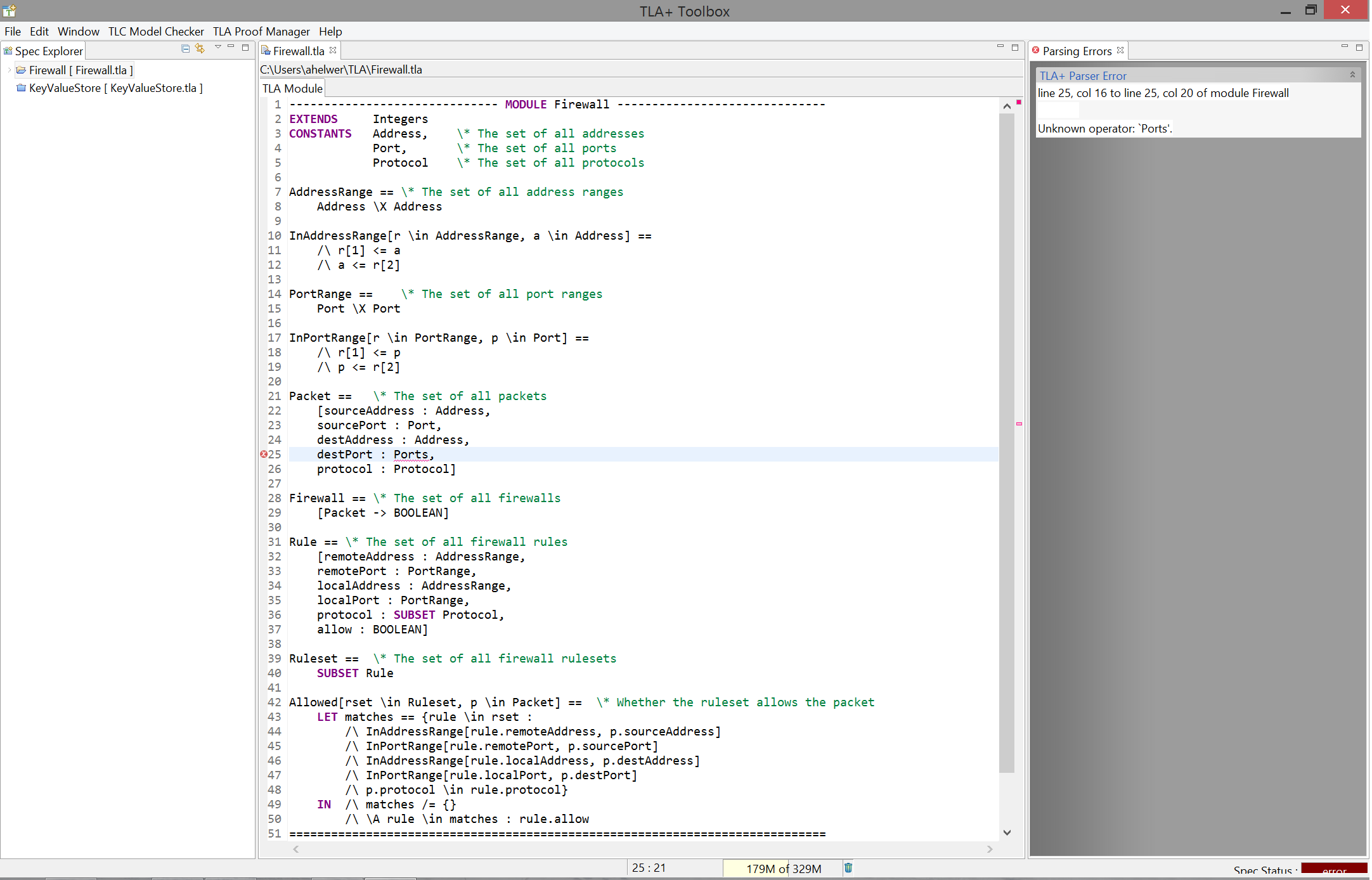 Screenshot of TLA+ IDE 1.5 in typical use, showing spec explorer on the left, editor in the middle, and parse errors on the right. Depicted software is FOSS, licensed under MIT (